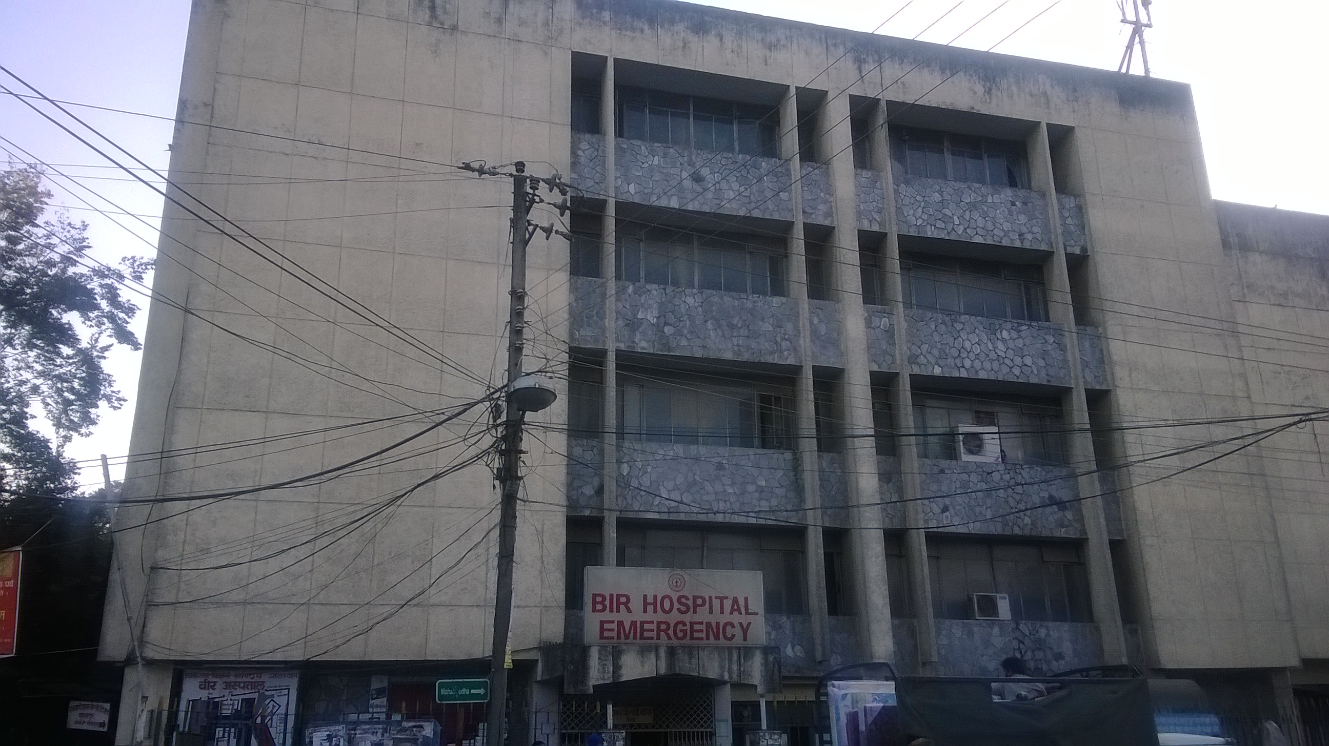 Bir Hospital building in Kathmandu.